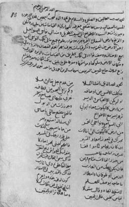 Ahmad ibn Mājid